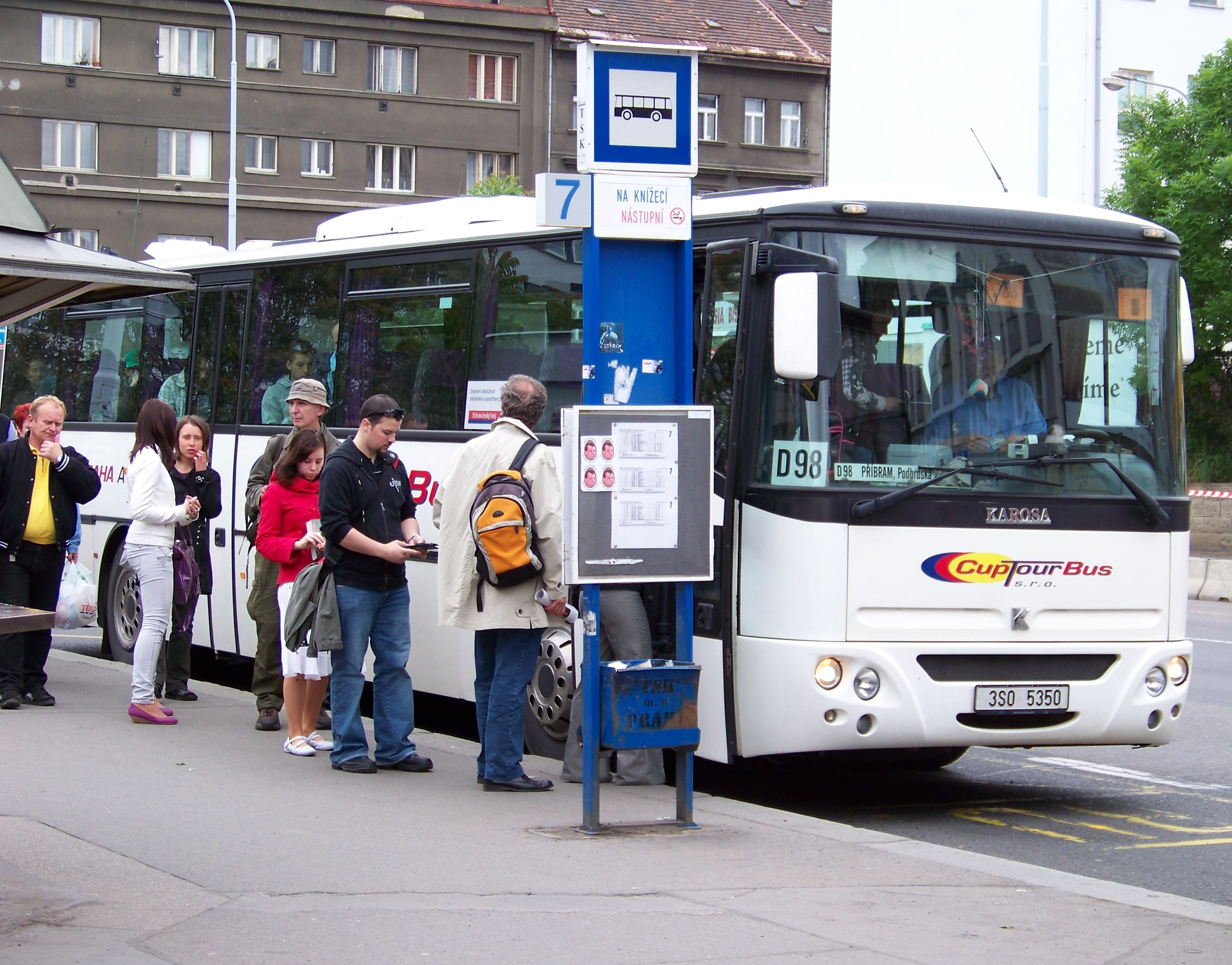 Smíchov, Prague, the Czech Republic. Na Knížecí bus station. A bus Karosa of Cup Tour Bus. - Google Maps - Google Earth